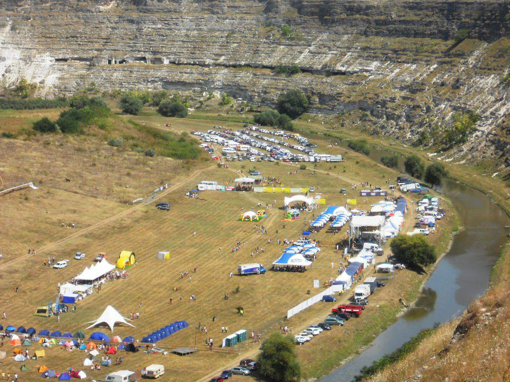 Image from "Gustar" festival, 2013 edition, which took place at "Orheiul Vechi" ("Old Orhei"), a cultural and natural sanctuary located near the village of Butuceni, Orhei DistrictRomână: Vedere de la festivalul Gustar din 2013, care a avut loc la Rezervația cultural-naturală „Orheiul Vechi”, satul Butuceni, raionul Orhei